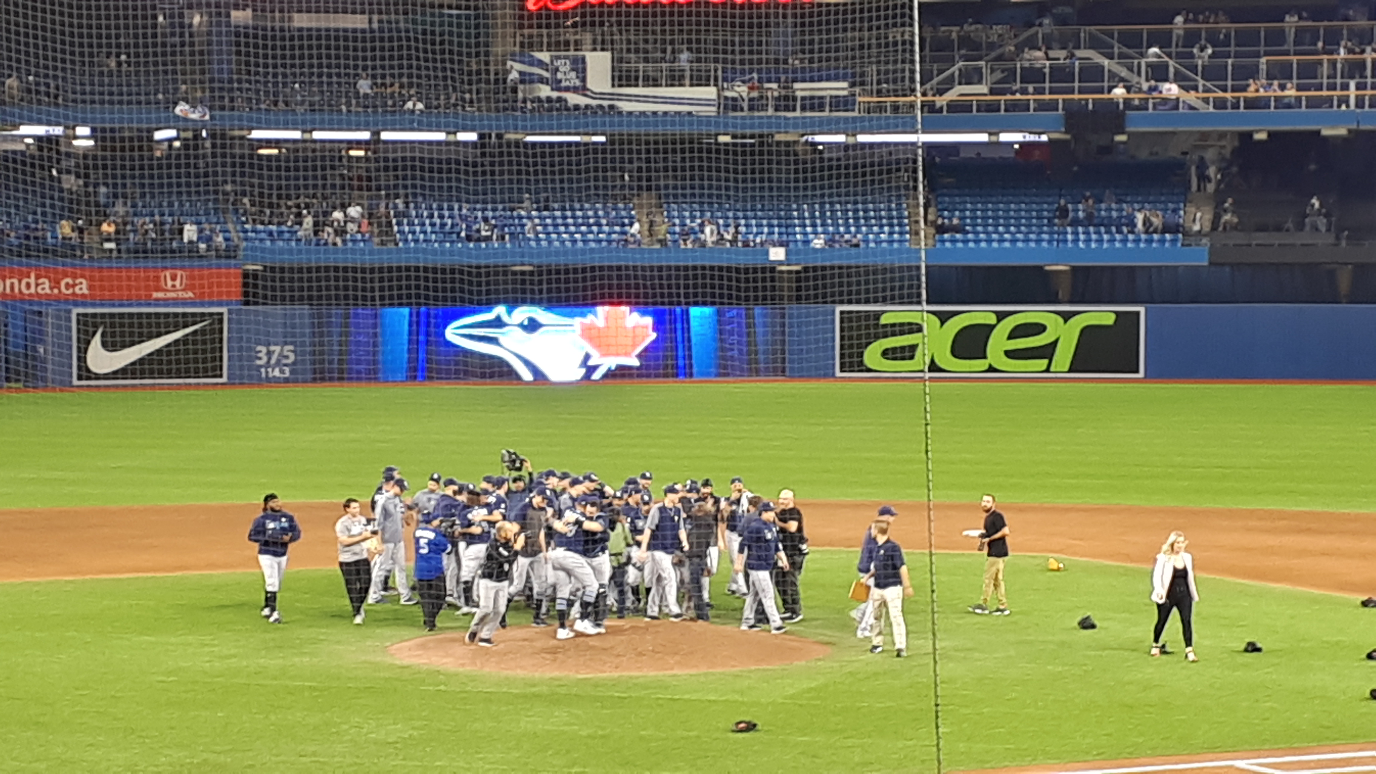 Rays celebrate on field at Rogers Centre after winning a wild card spot on Sept 27.